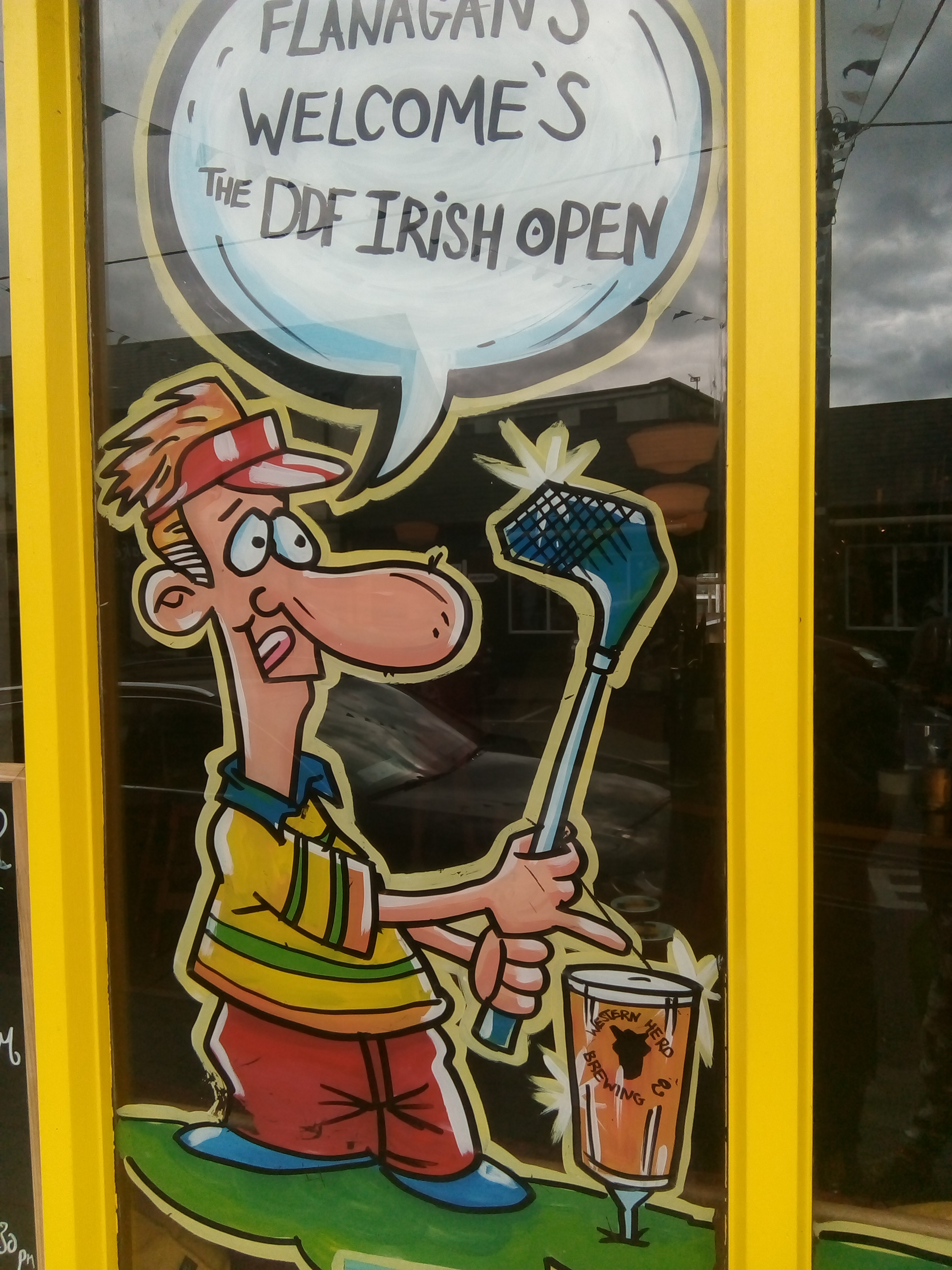 Irish Open (golf) poster